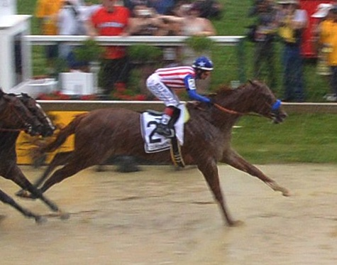 Dortmund at the Preakness Stakes. Crop of File:American_Pharoah_start_of_Preakness_Stakes.jpg